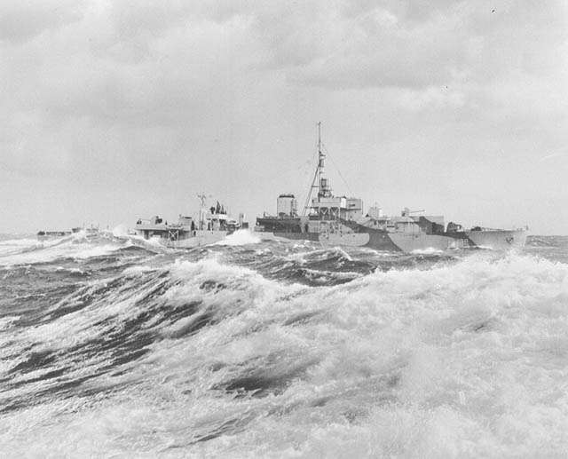 H.M.C.S. SWANSEA in rough seas off Bermuda.